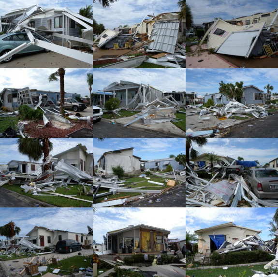 A collage of images from a tornado spawned by Hurricane Isaac (2012) near Vero Beach, Florida on August 27, 2012